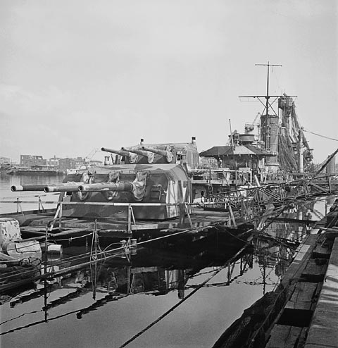 German cruiser KOLN sunk by Allied bombing Location: Wilhelmshaven, Germany Accession #: 1967-052] Restrictions on use/reproduction: Nil